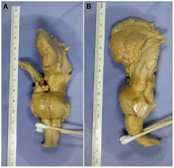 Ex vivo brainstem tissue sample. (A) Coronal view displaying the anterior portion of the tissue sample. (B) Sagittal view displaying the left-hand side of the tissue sample.